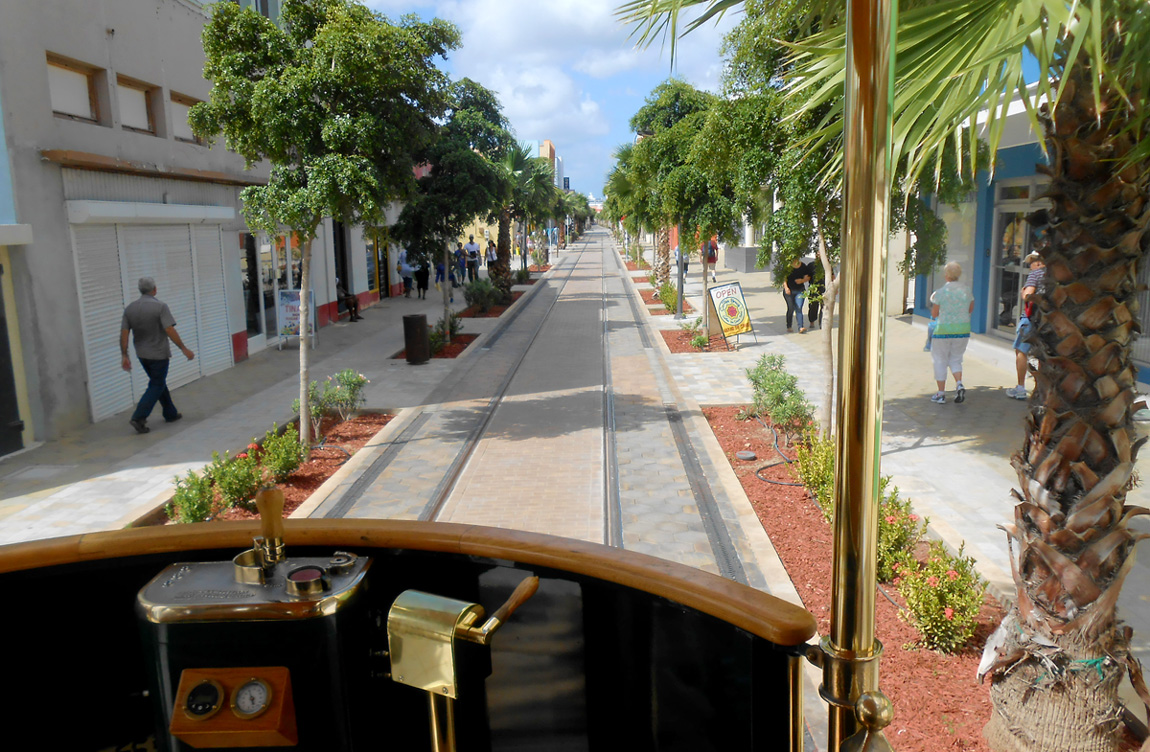 The operator's (or driver's/motorman's) view from the Aruba trolley, going west on Main Street (formerly Caya Betico Croes). The street is now a pedestrian street, dedicated to the trolley. The controller is in the foreground. There is one place where the driver can remove a "key," so nobody can start the trolley while he is away. There are controls at both ends of the car, and the seats are reversible for the return trip.